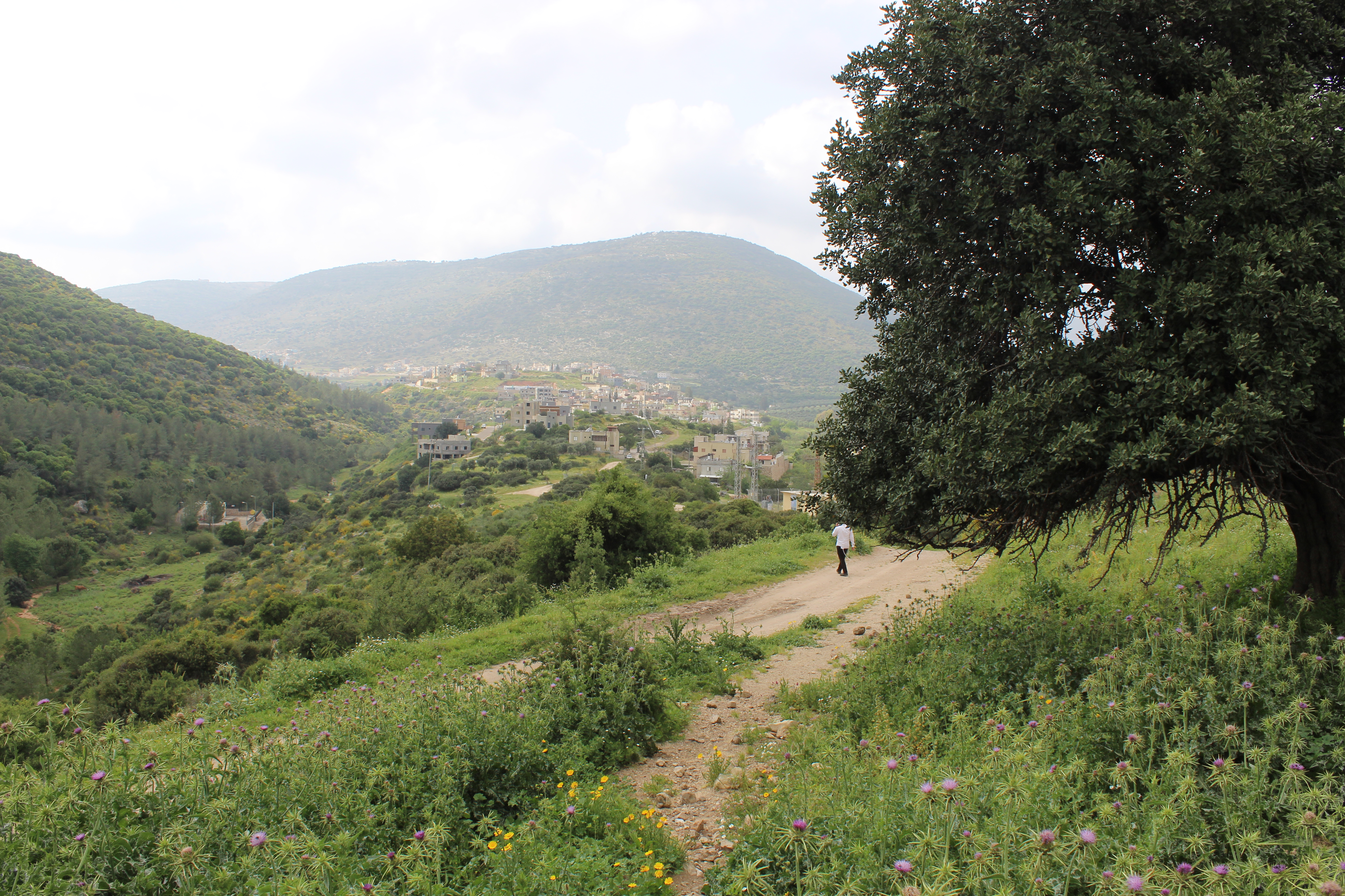 Sallama village as seen from the 1st-century CE ruin of Selamin, in the Lower Galilee